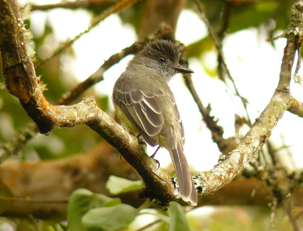 Apical Flycatcher - endemic species from Colombia